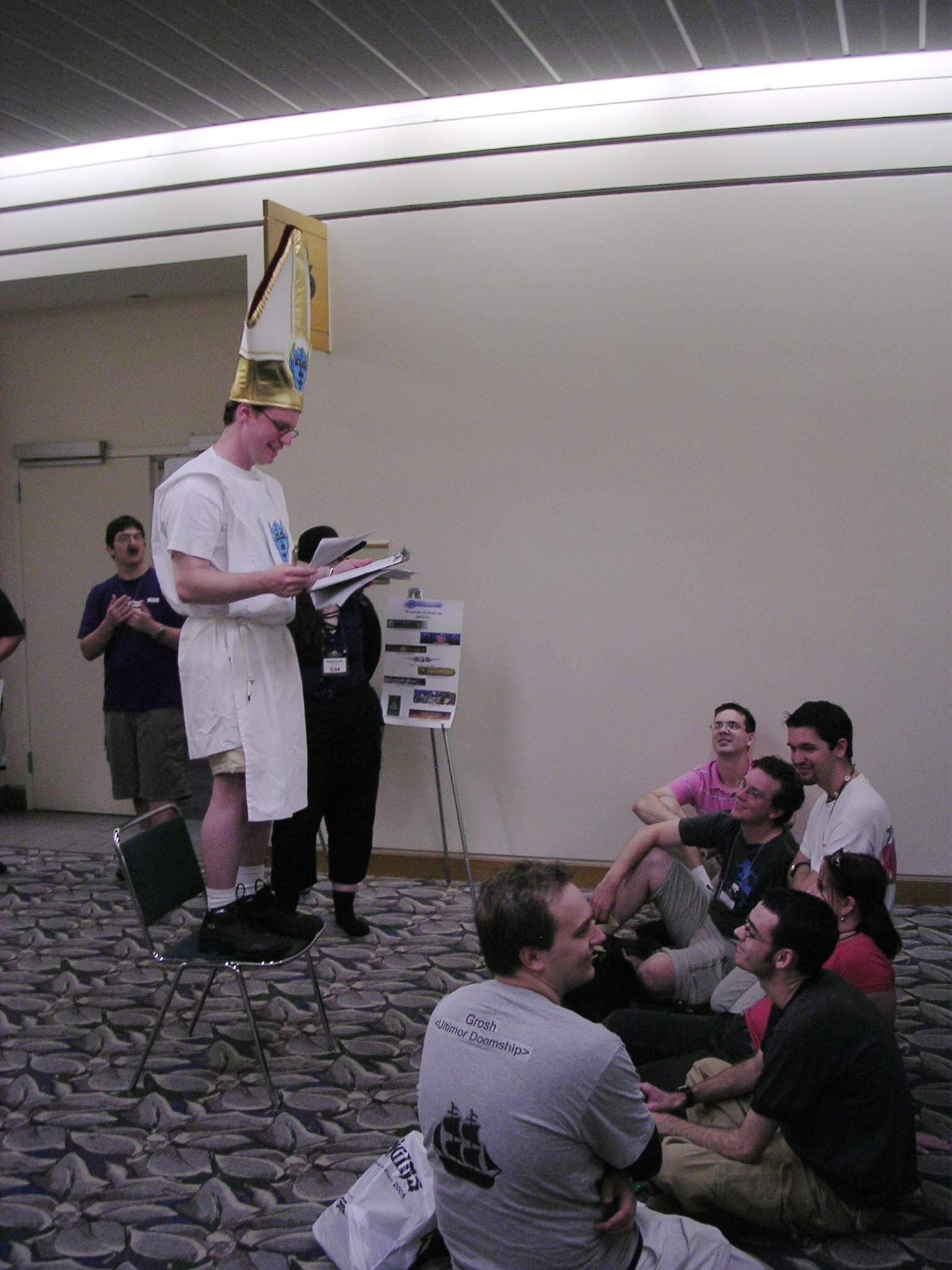 Tom Lommel at Gen Con Indy on 2005-08-19. Lommel (the man in the mitre) is marshalling players for the 2005 NASCRAG game "NASCRAG Presents: A Small Problem". Lommel is grouping players into teams of six. The teams are required to come up with a humorous team name and a team cheer before being sent with a judge to play in the event. The photograph has been lightened. (Thanks to Carole Bland for identifying Lommel and providing context to the photograph. I just shot it as I walked by without being certain if it was NASCRAG.)